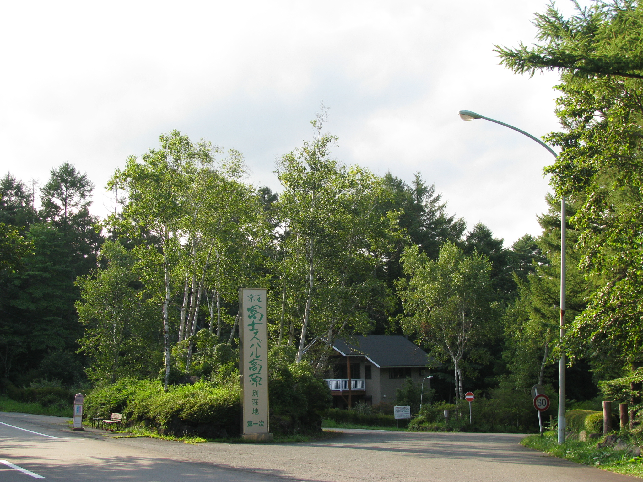 First District, Keio Fuji Subaru Highland Villas.